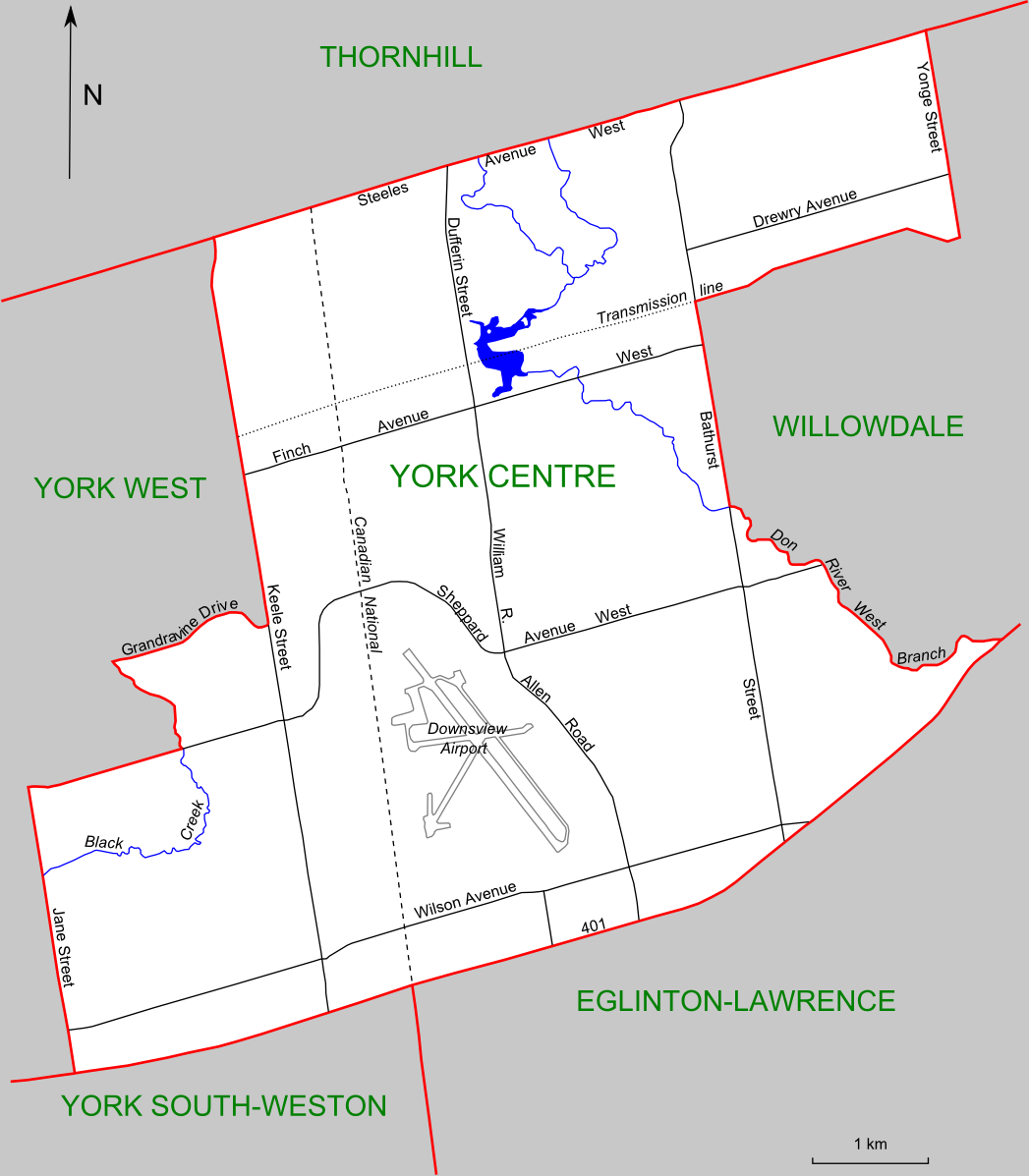 Map of the Ontario federal and provincial of York Centre (boundaries defined federally in 2003 and adopted provincially in 2007)